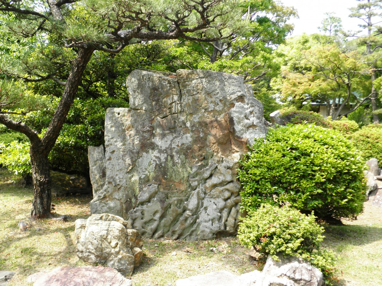 Site of the Nagoya Castle (那古野城) located in Ninomaru of the Nagoya Castle (名古屋城).